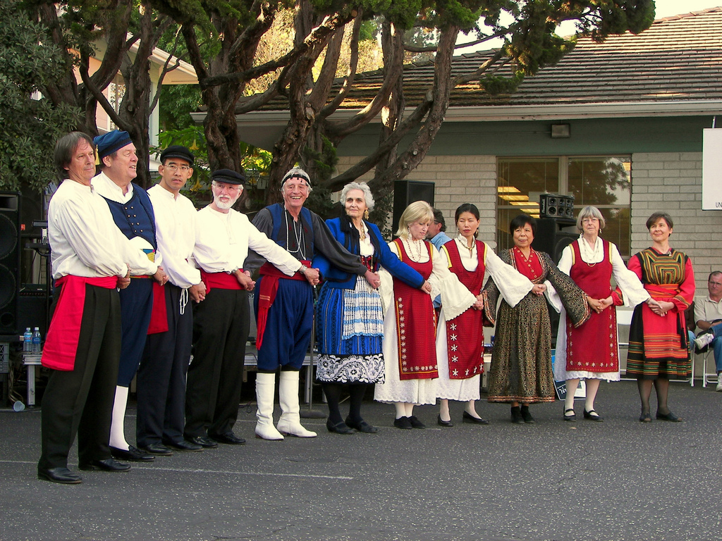 2007 Greek Festival, Santa Cruz, California